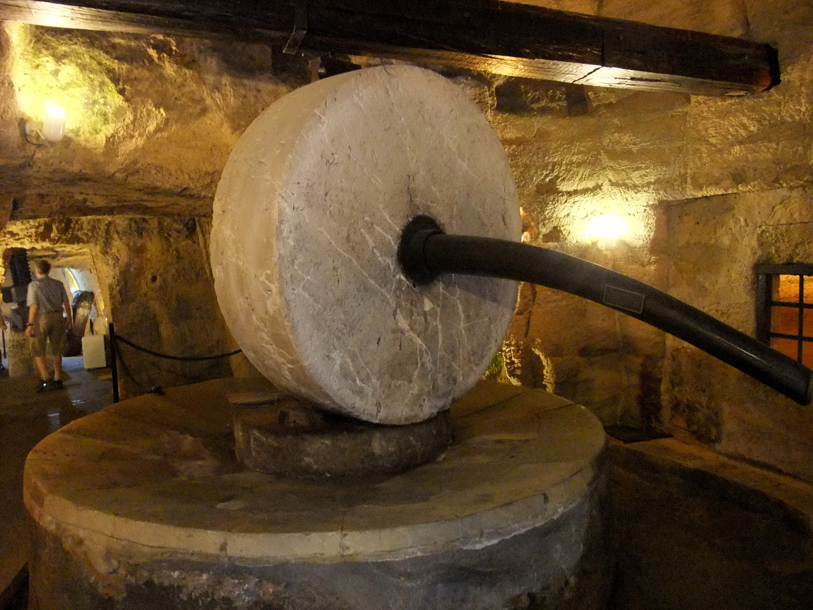 Oil mill in Gallipoli in Apulia, southern Italy